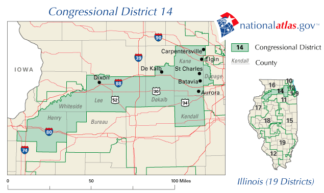 Map of Illinois' 14th Congressional District